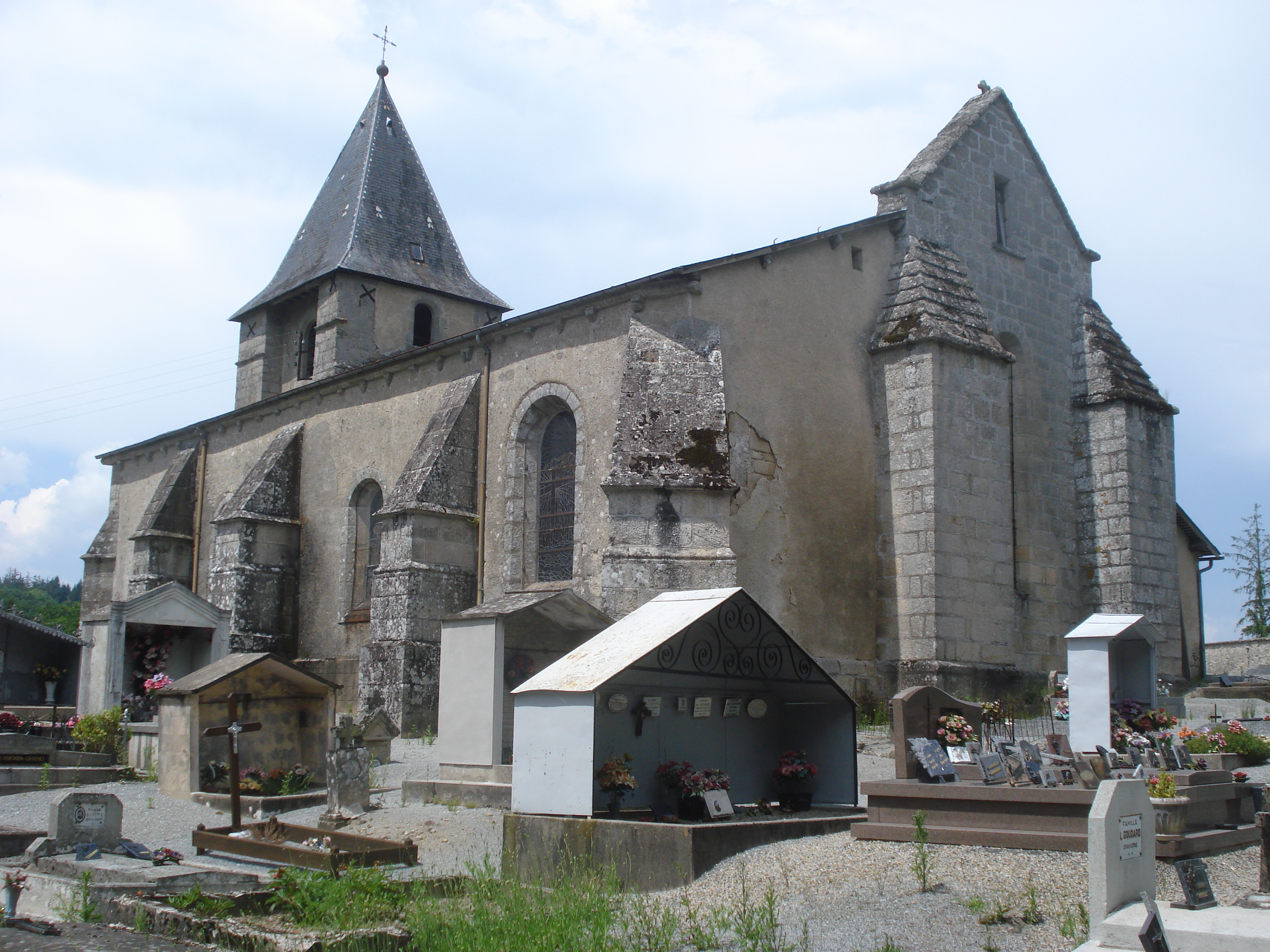 church of Chatelus-le-Marcheix (Creuse, Fr)